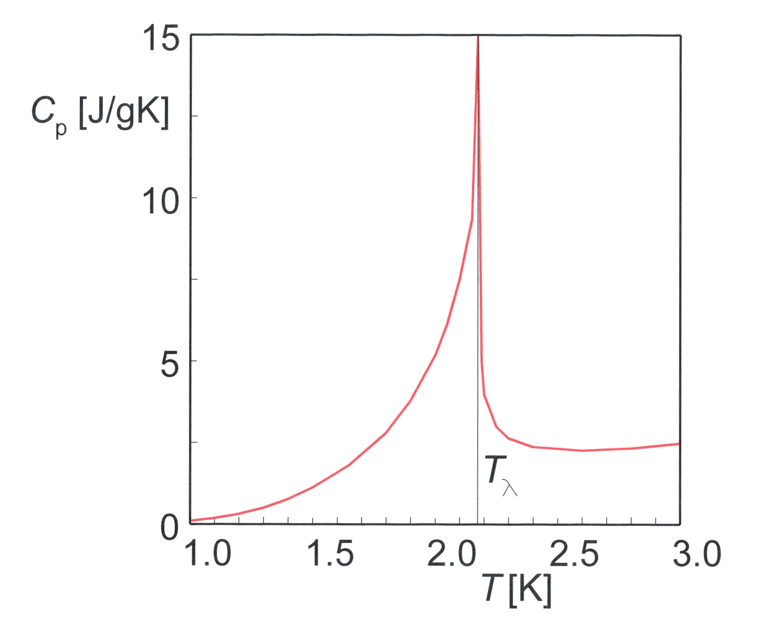 Heat capacity of 4He